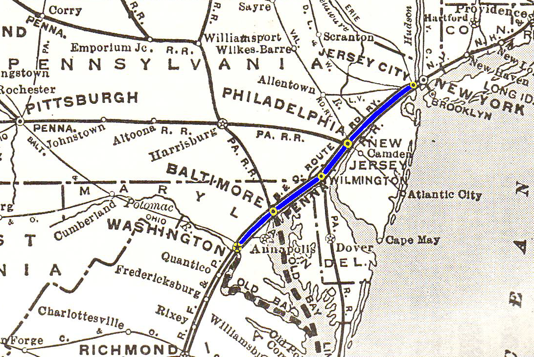 The route of the Baltimore and Ohio Railroad's Royal Blue Line between Washington, D.C., and New York City, highlighted in blue .